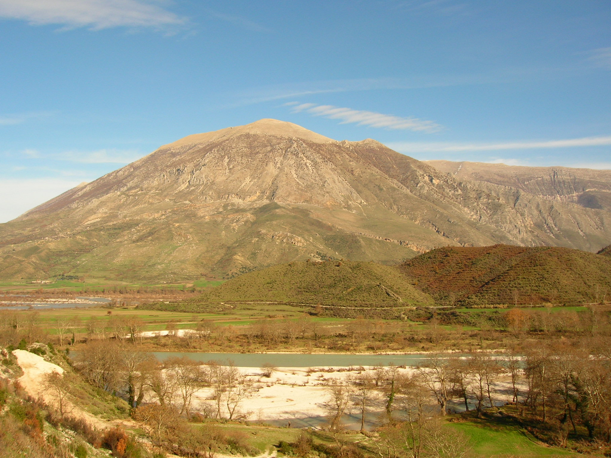 The Drinos river valley near Tepelena, Southern Albania.